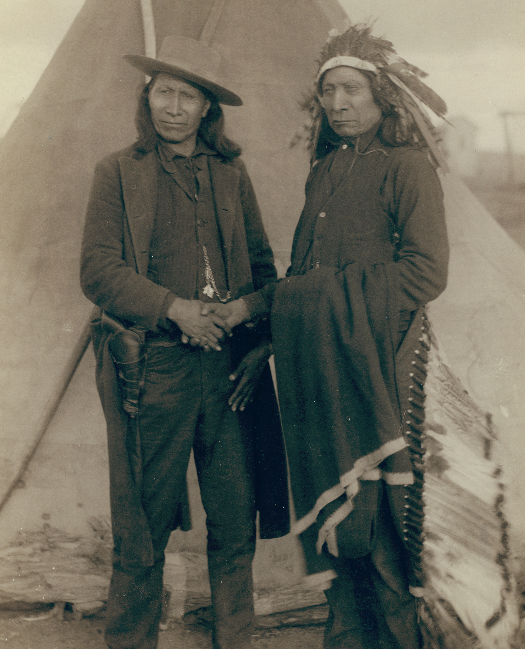 Two Oglala chiefs, American Horse (wearing western clothing and gun-in-holster) and Red Cloud (wearing headdress), full-length portrait, facing front, shaking hands in front of tipi--probably on or near Pine Ridge Reservation.